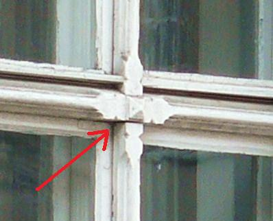 Poznan, Window - Mlynska Street.